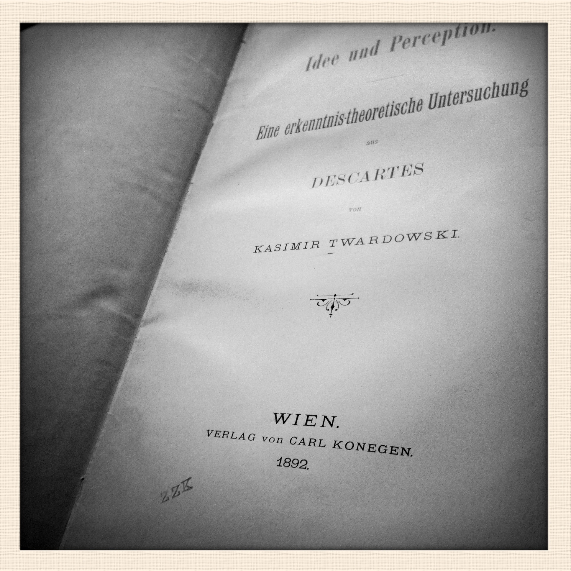 Title page